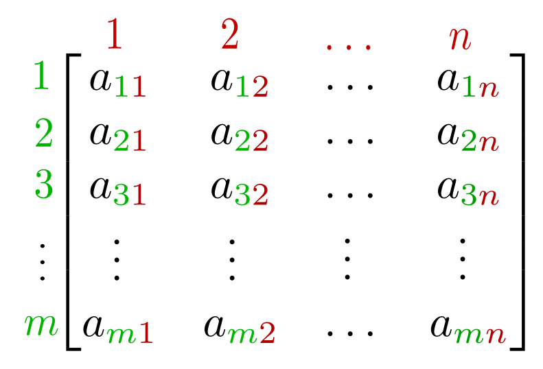 Matrix